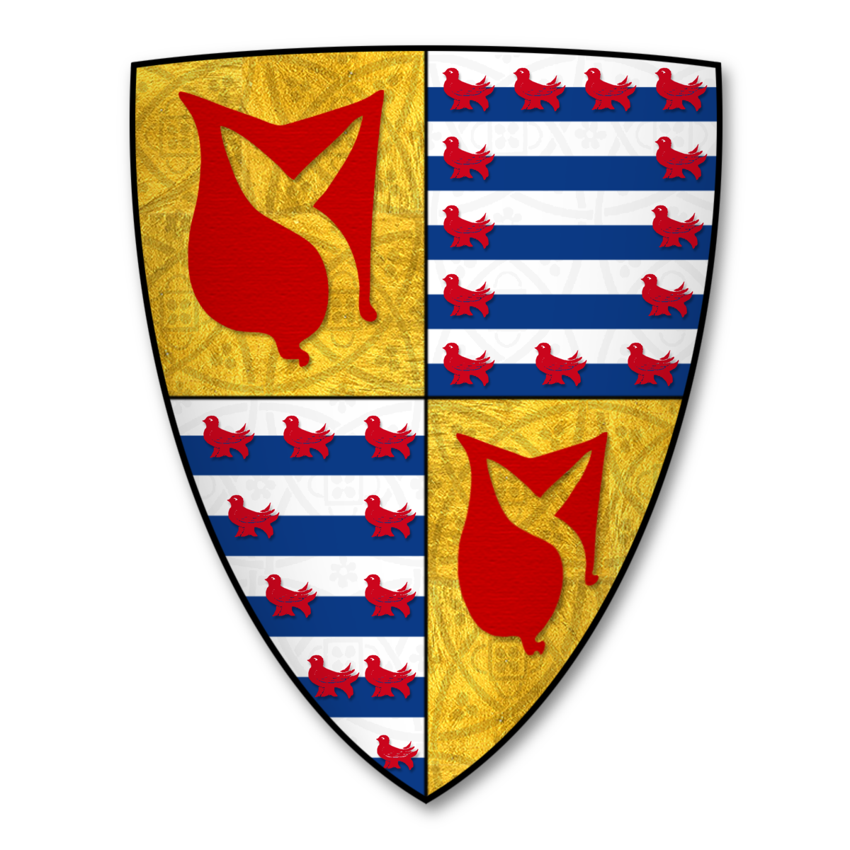 Coat of Arms - Hastings, Earls of Pembroke, and Barons Hastings. Blazon: Quarterly, 1st and 4th: Or a maunch gules (for Hastings); 2nd and 3rd: Barry of argent and azure, an orle of martlets gules (for Pembroke).